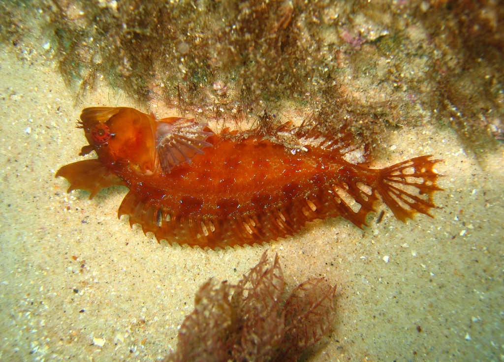 A Rosy Weedfish (Heteroclinus roseus) displays its weed-like fins. Blue Fish Point, Sydney, NSW